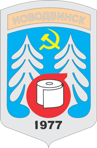 Novodvinsk (Arkhangelsk oblast), coat of arms